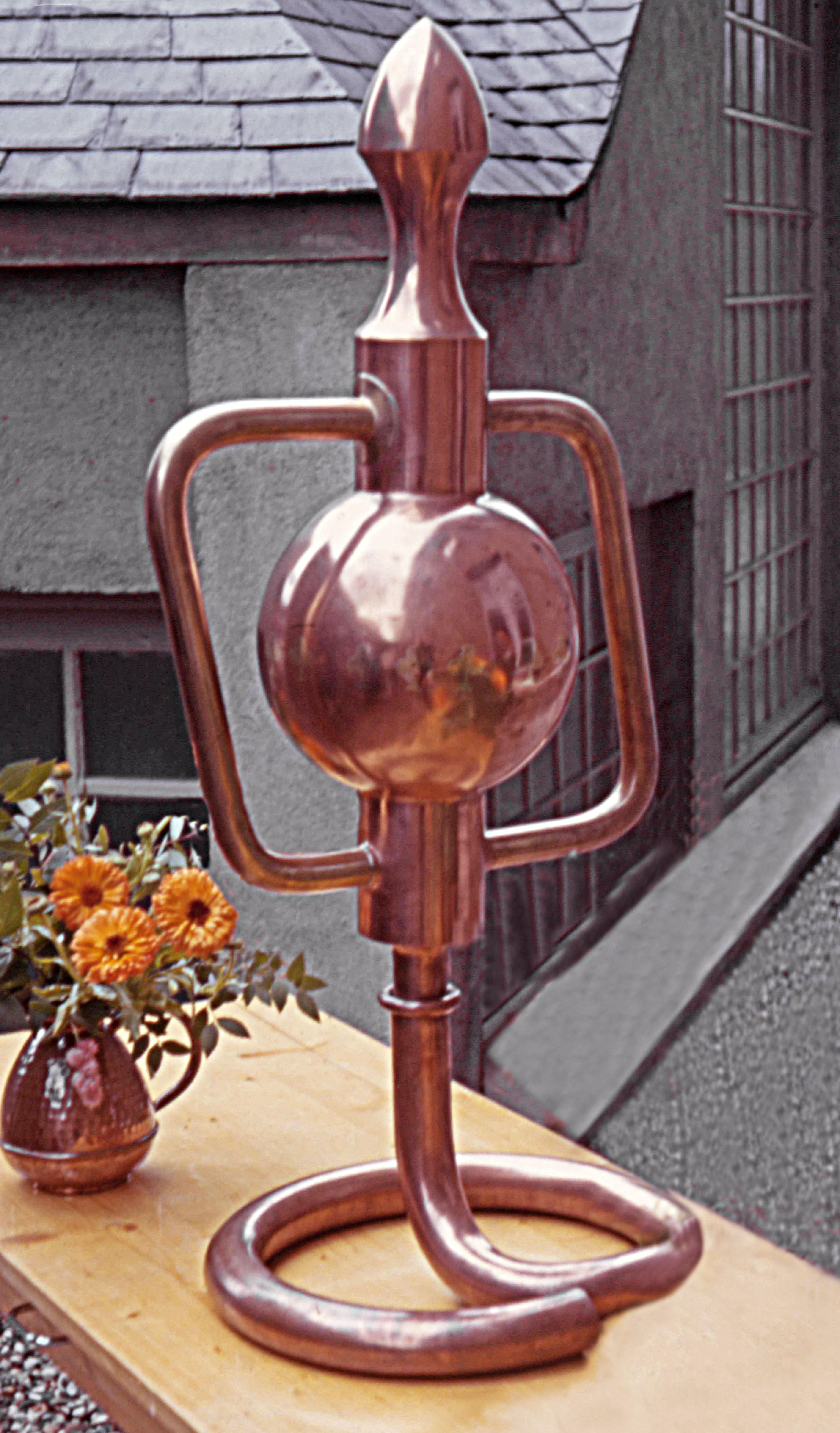 " Compagnon" plumber masterpiece. Work on copper pipe.